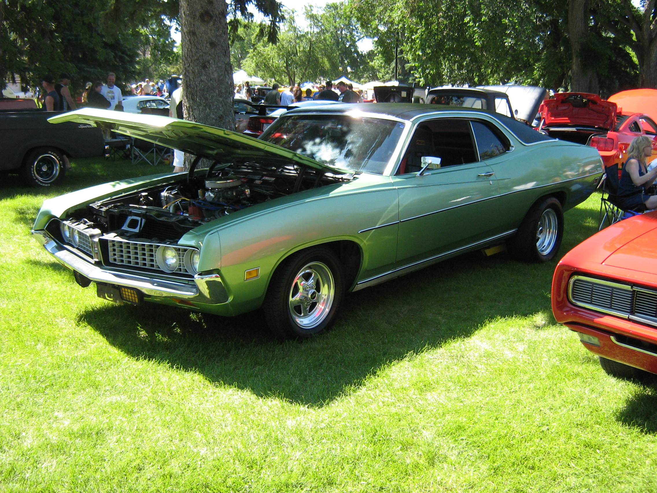 1971 Ford Torino 500